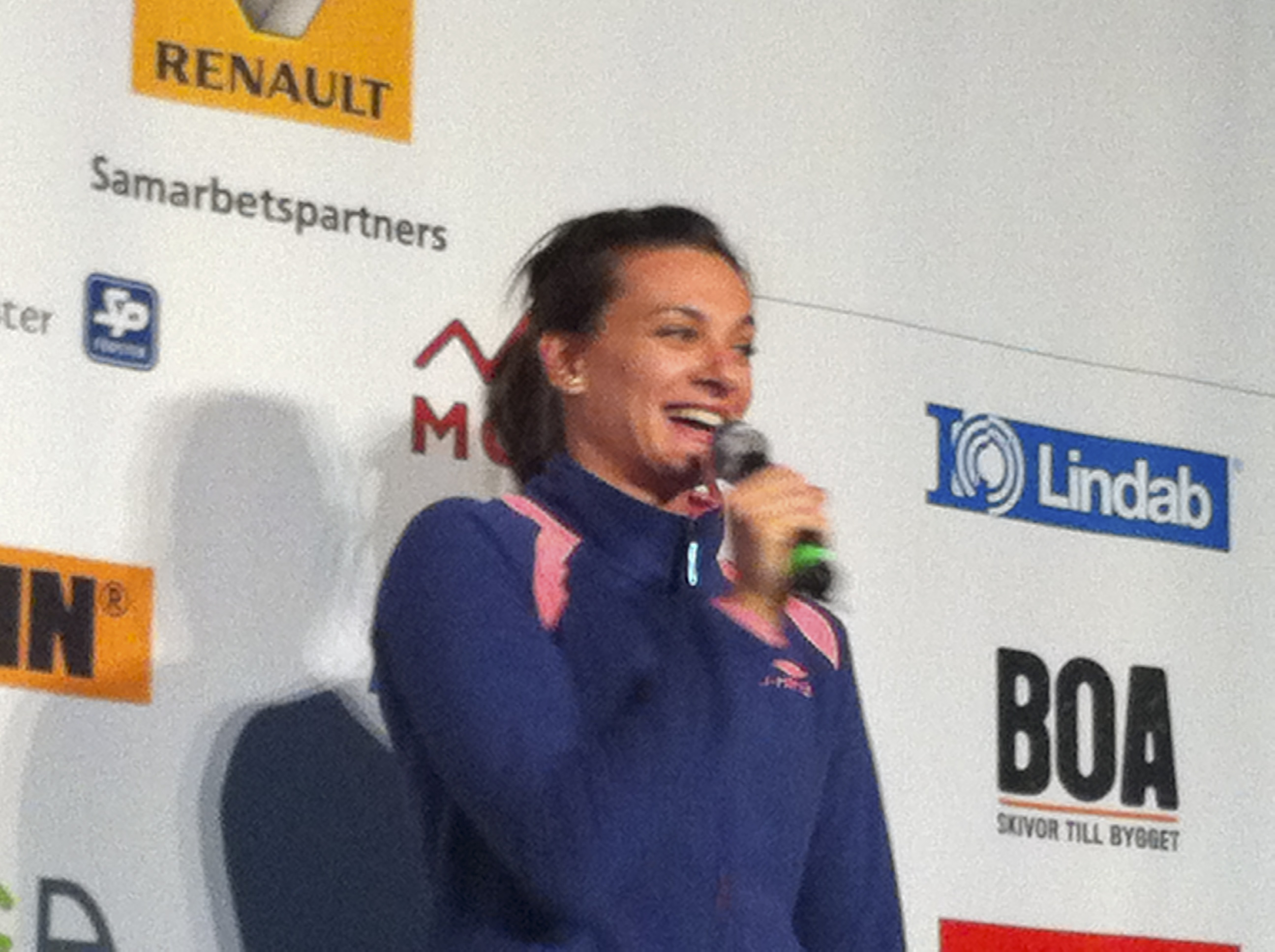 XL sport event in The Globe, Stockholm, Sweden. Jelena thanks the spectators after setting world record indoor 5.01 m.